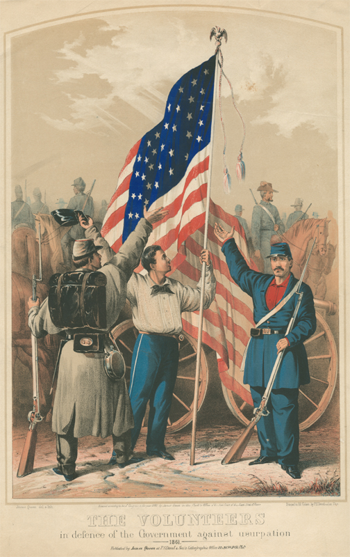 Two soldiers gesturing toward an American flag held by a sailor. Soldiers on horseback and a partial view of a cannon are visible in the background. Soldiers’ attire includes bayonets, a knapsack,and a canteen.